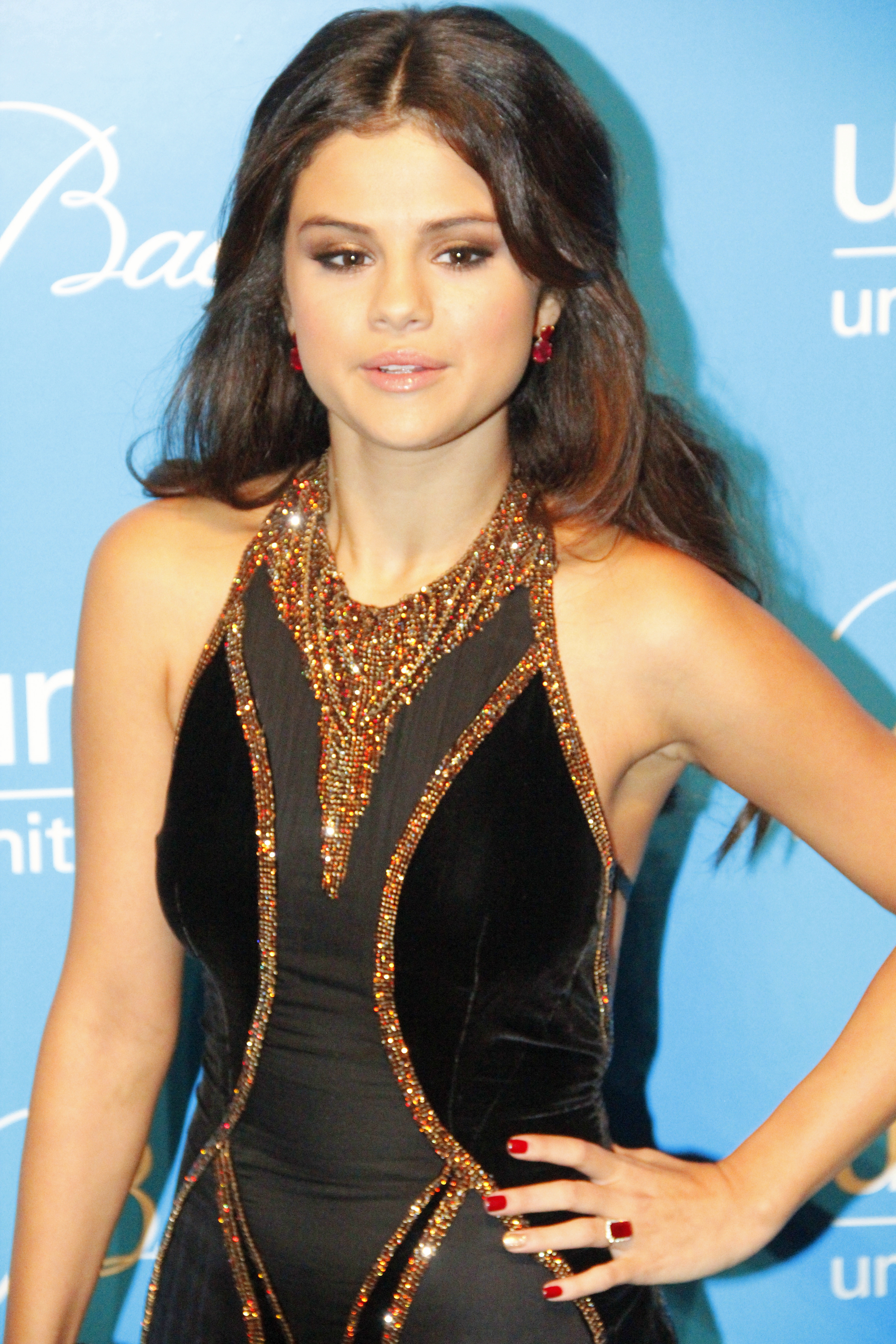 Selena Gomez at the UNICEF Snowflake Ball 2012 in New York City.